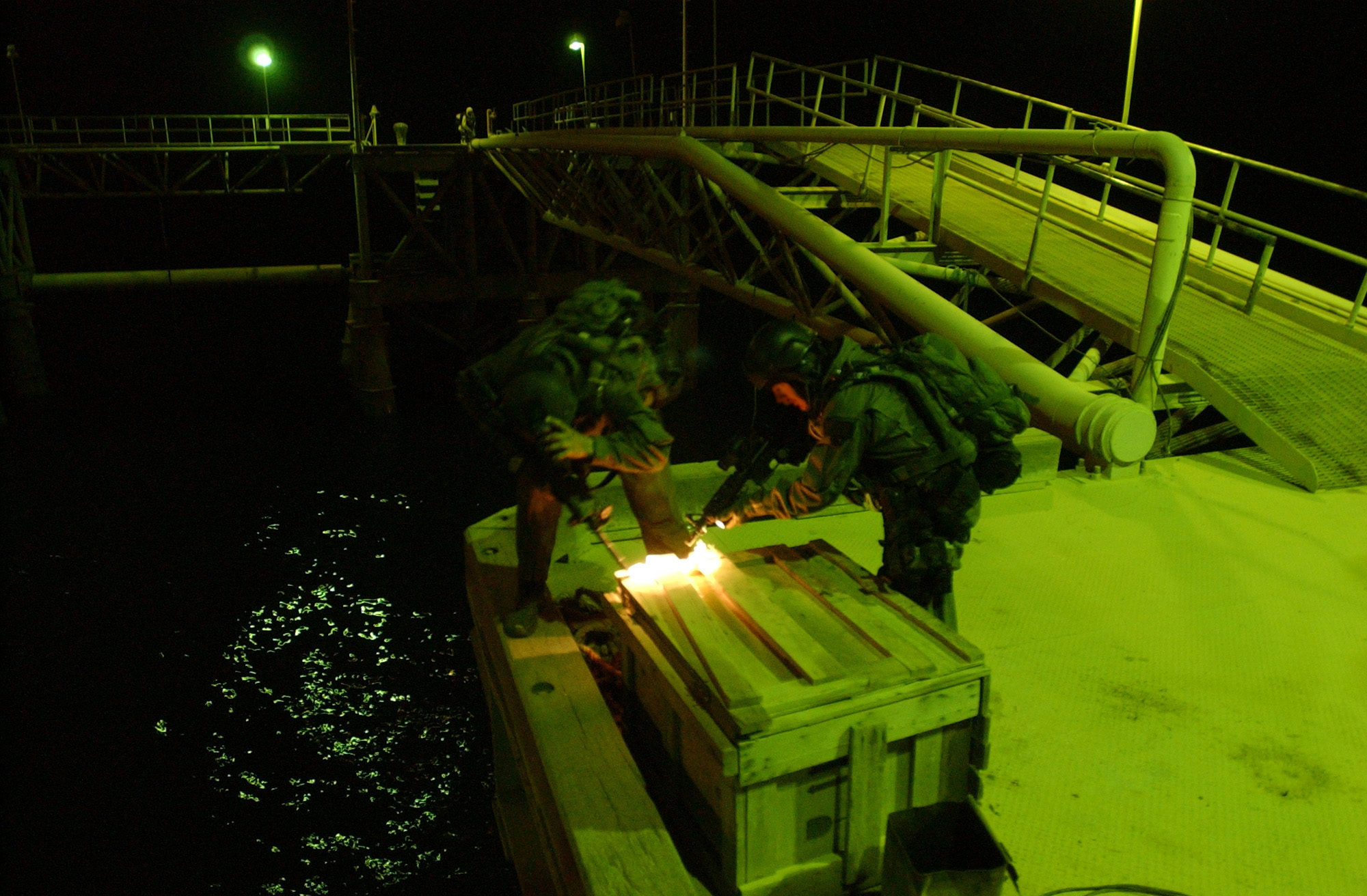 Central Command Area of Responsibility (AOR) Mar. 21, 2003 - Naval Special Warfare operators inspect a shipping container located at Iraq's Mina Al Bakar Oil Terminal during an operation to prevent the oil platform from being destroyed by Iraqi military. U.S. Navy photo by Photographer’s Mate 1st Class Arlo K. Abrahamson. (RELEASED)